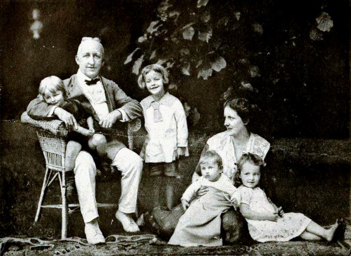 Siegfried Wagner and his family, on page 60 of the December 1922 Shadowland.